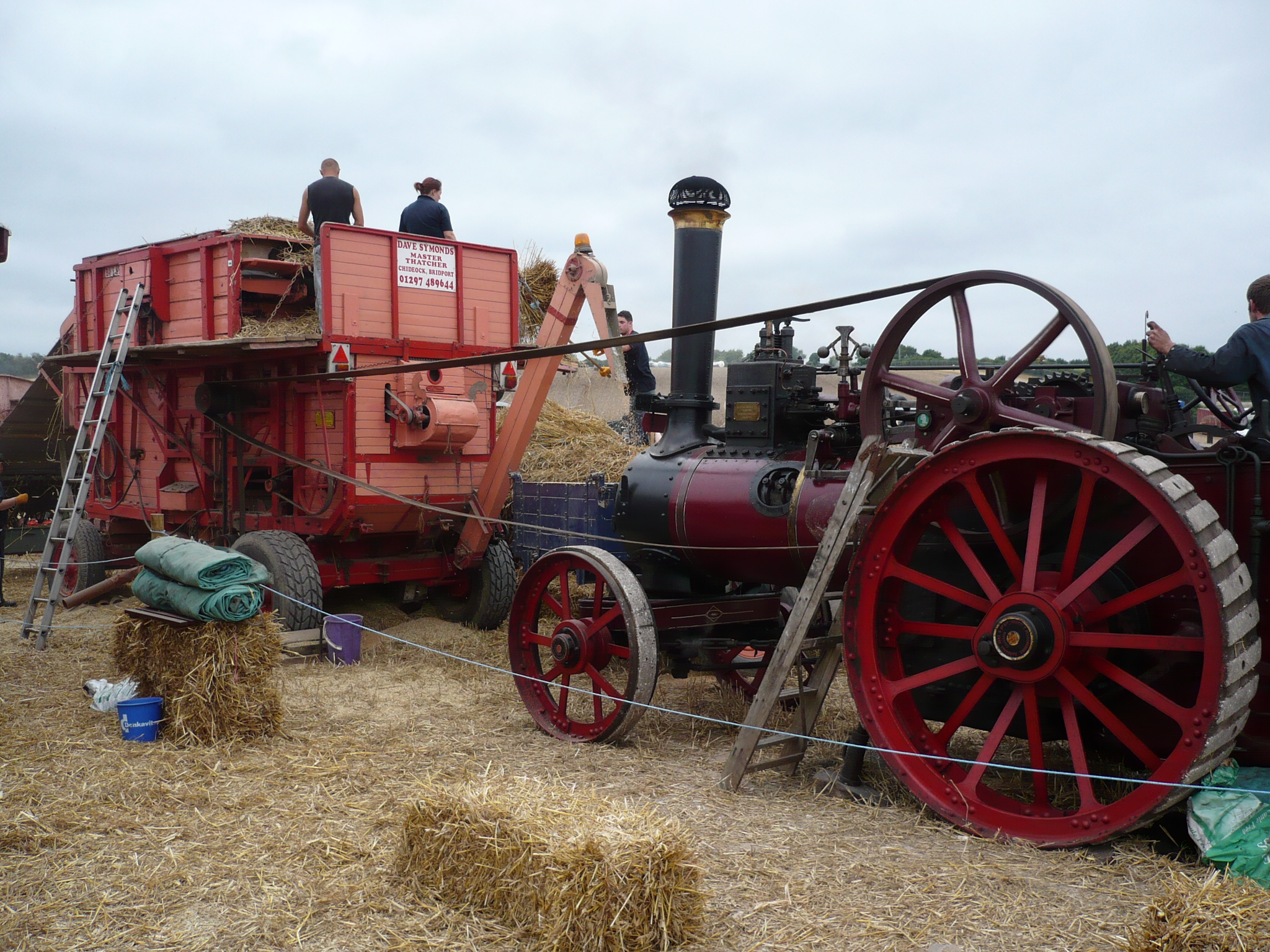 Threshing demonstration at Great Dorset Steam Fair